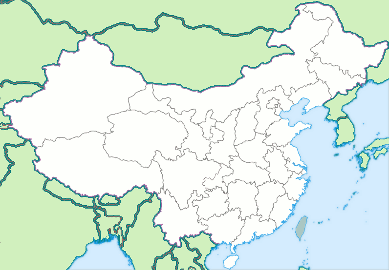 for Template:Location map